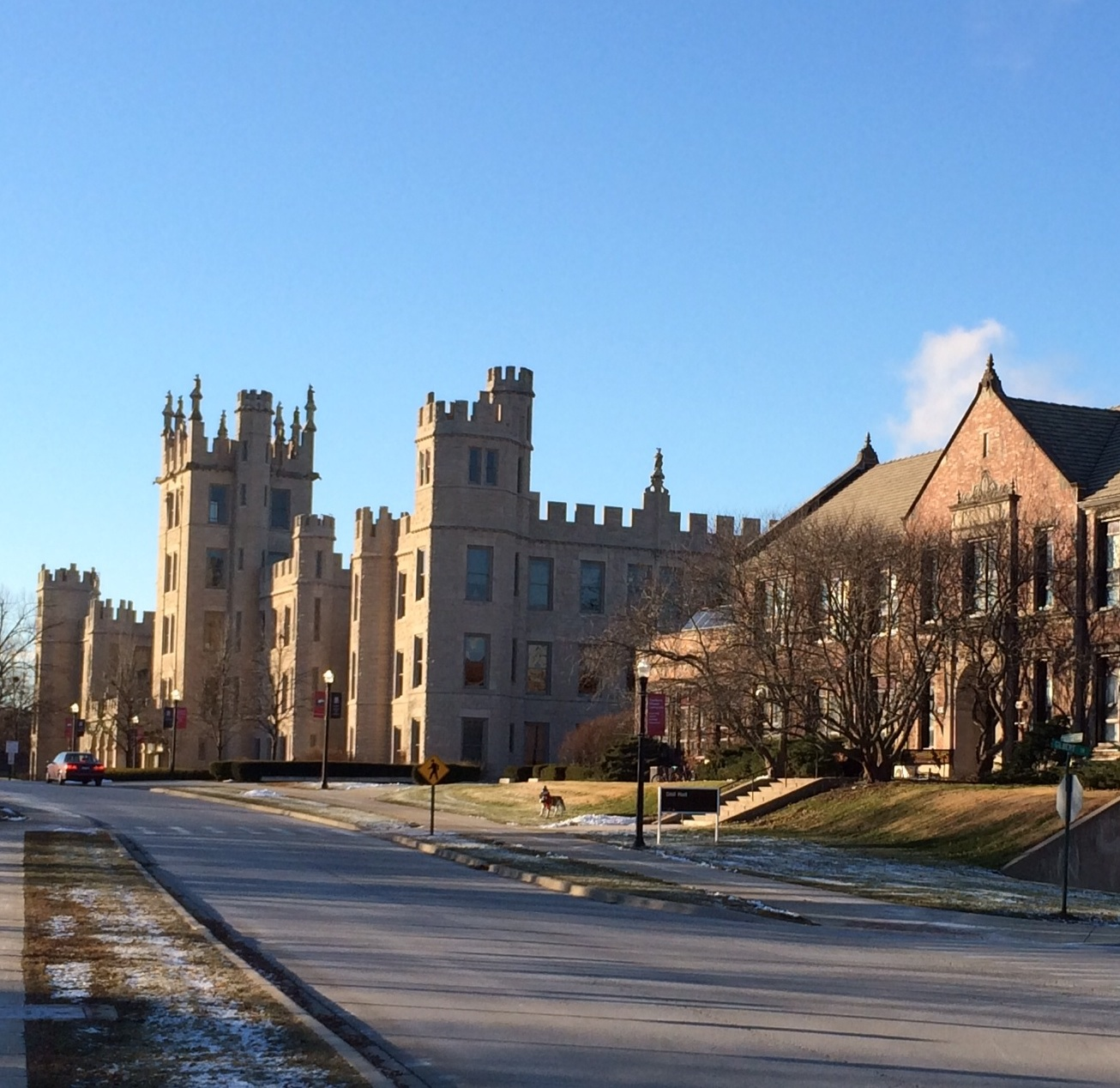 Altgeld Hall and Still Hall along College Ave, November 2013